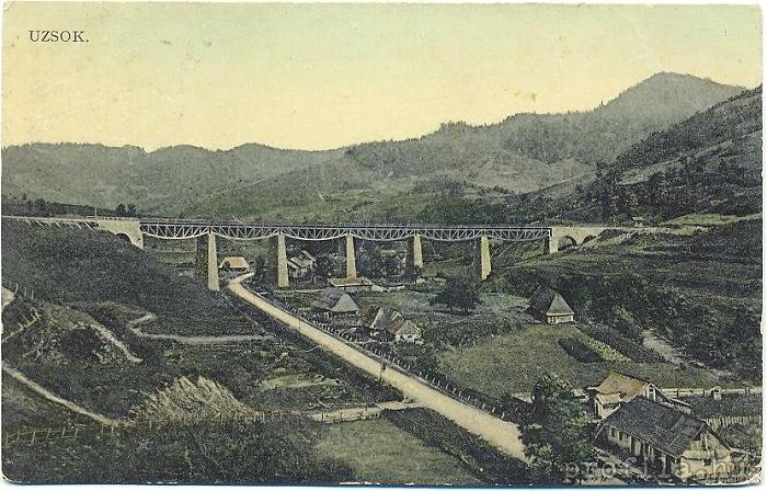 Uzhok Zakarpattia